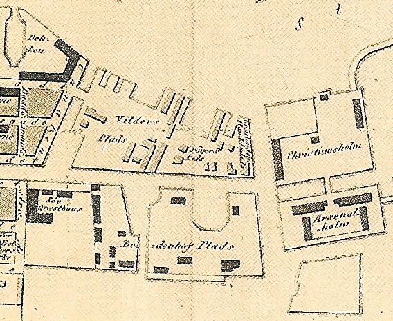 Bodenhodds Plads (bottom) and Eilders Plads (top) seen on a map detail